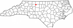 Category:North Carolina Dot Maps